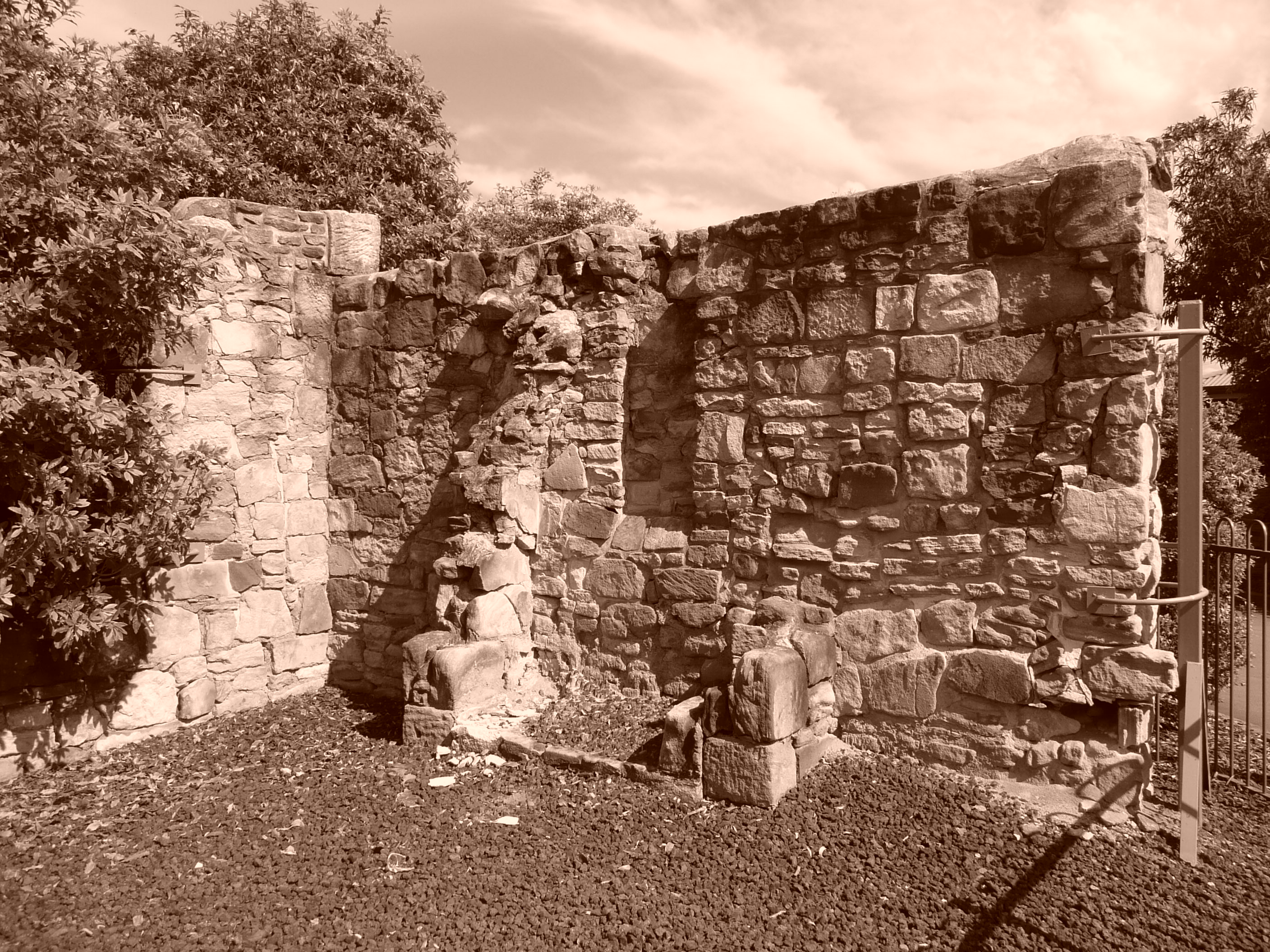 Remains of Pilgrim Inn, Blaxland, NSW, Australia